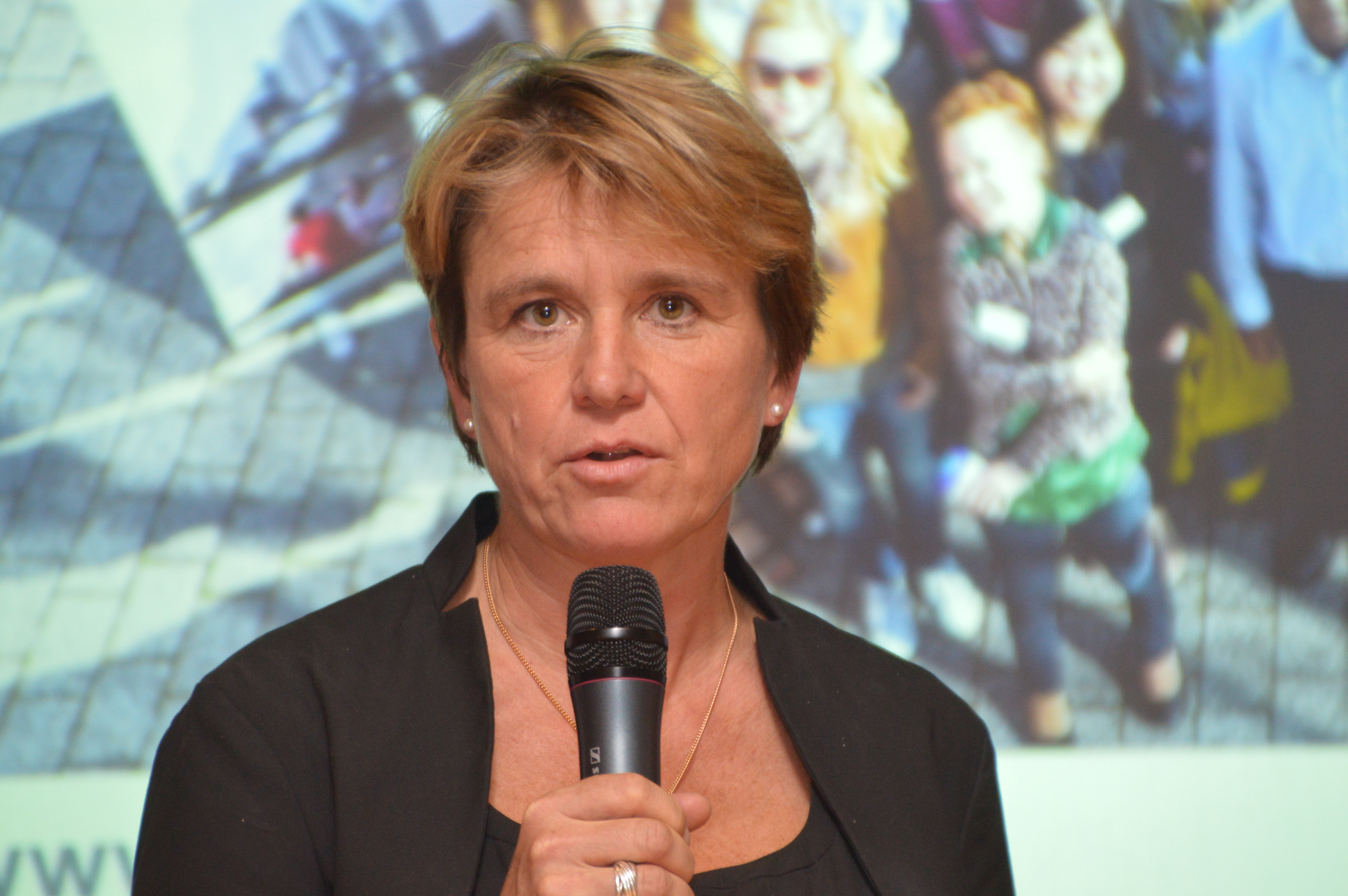 PD Dr. Heike Zimmermann-Timm